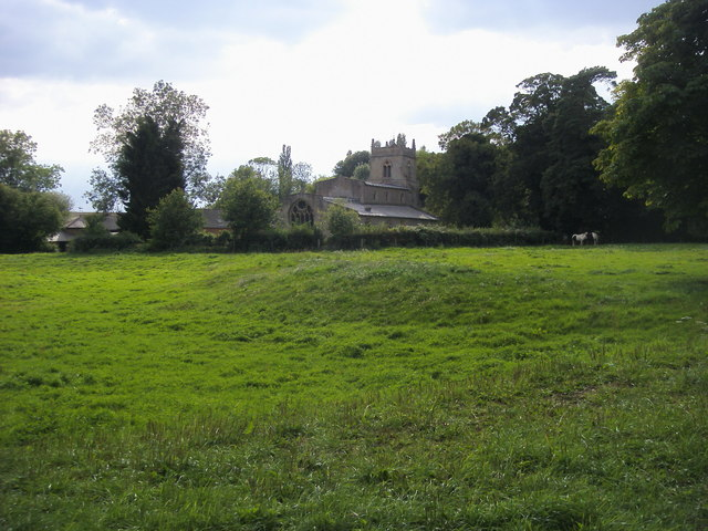 St Mary the Virgin Church Looking across the field to St Mary the Virgin Church Shelton